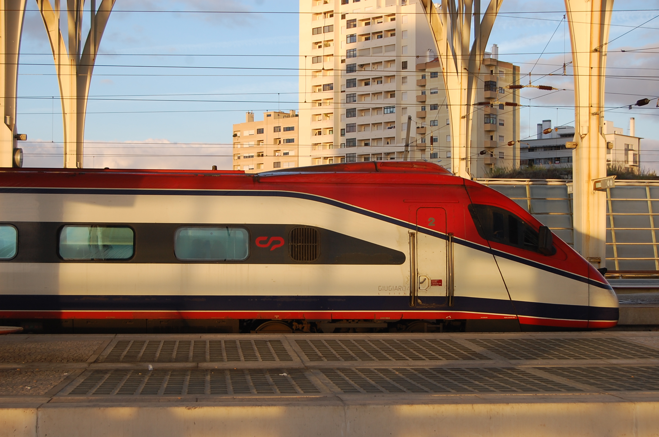 Alfa Pendular train (train type 4000) at Lisbon's Gare do Oriente train station